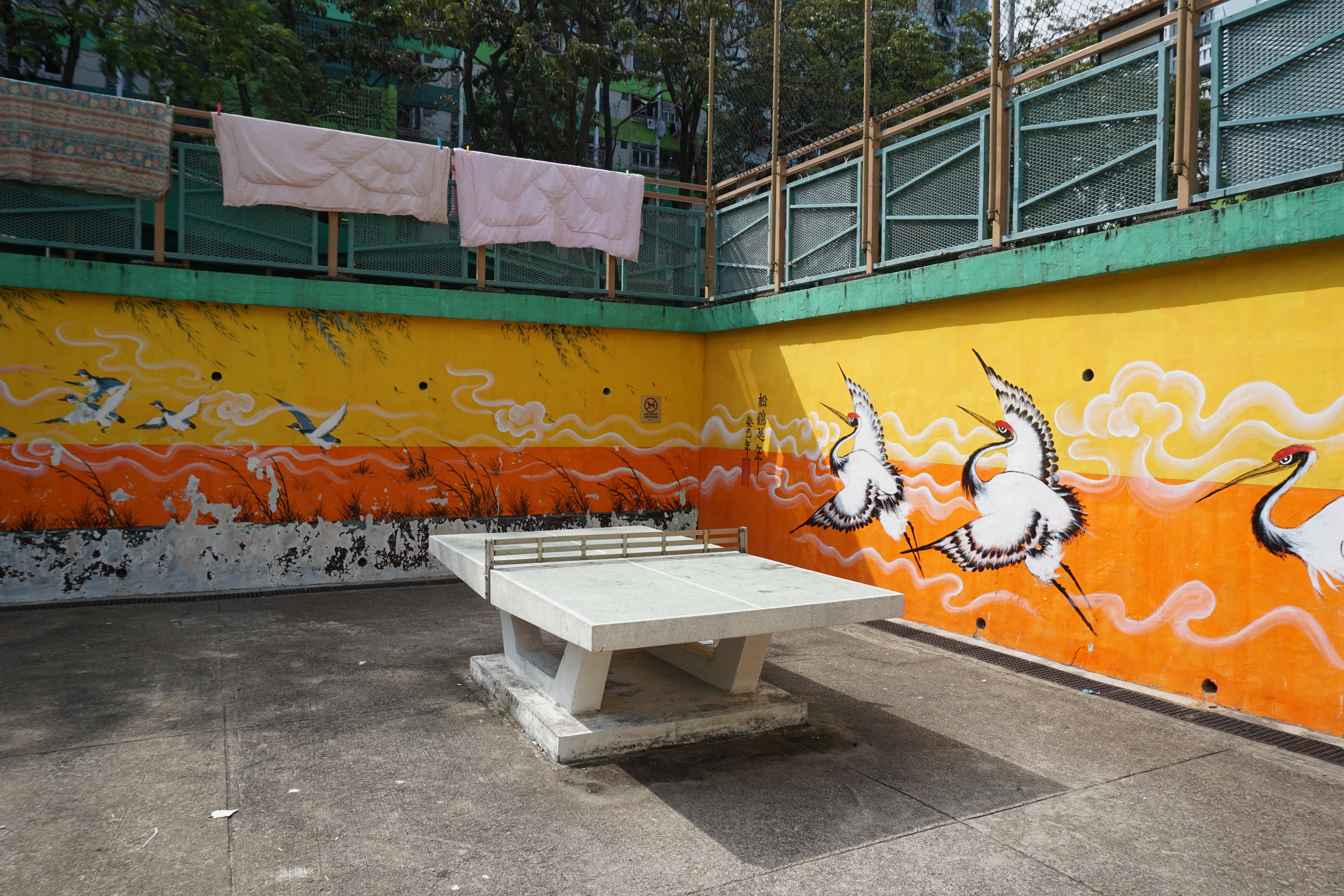 Nam Shan Estate in Shek Kip Mei, Hong Kong.